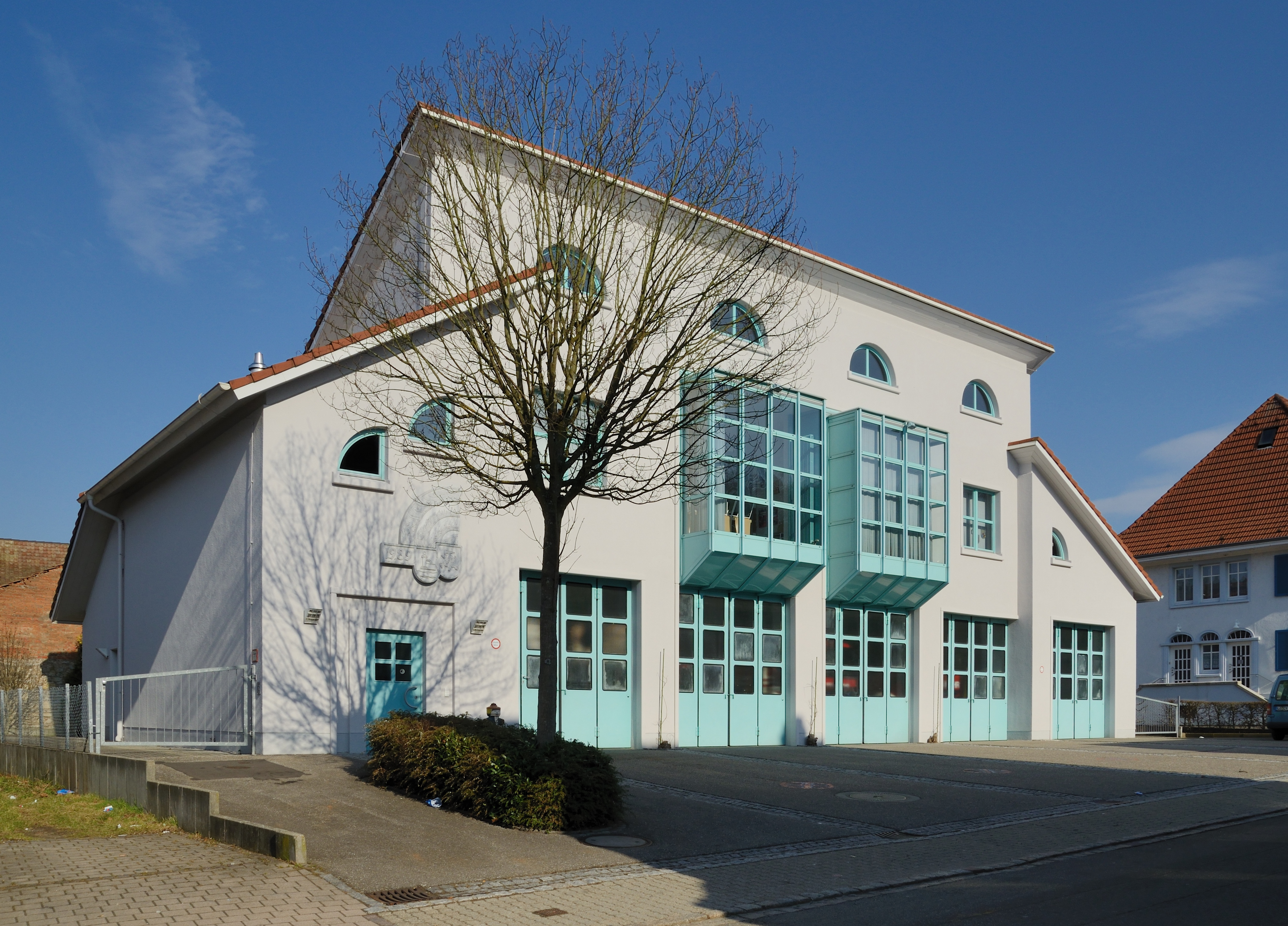 Lörrach-Brombach: fire service